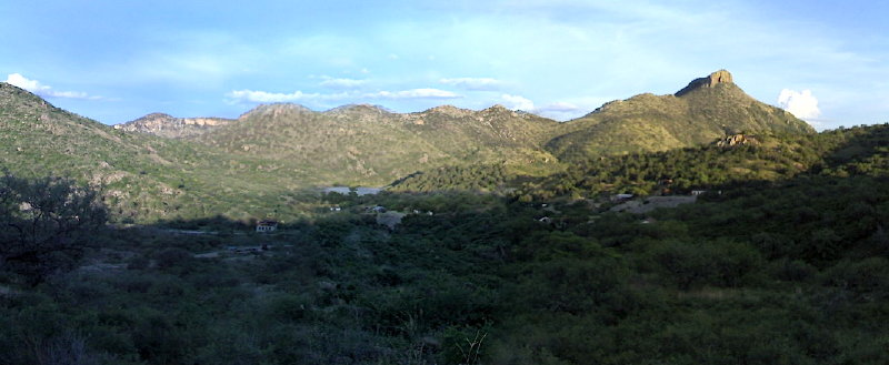 Photo of Ruby, Arizona taken July 2007 from western edge of the property looking ESE. Montana Peak, the main part of the town and the mine tailings visible.